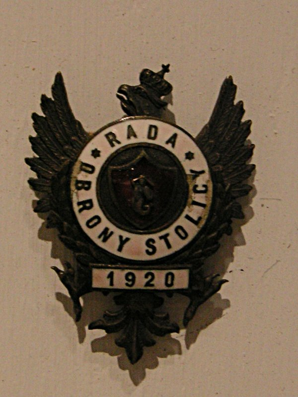 made during a summer day in Warsaw's Museum of the Polish Army; Commemorative badge of the Council of Defence of the Capital, issued to its veterans after the Battle of Warsaw of 1920